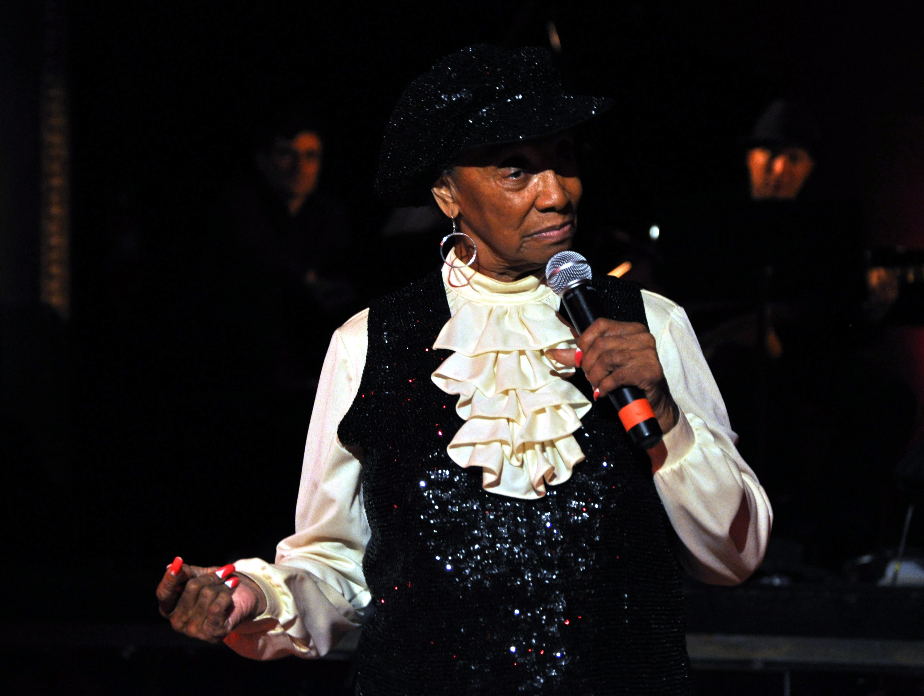 Norma Miller performing at Masters of Lindy Hop and Tap, Century Ballroom, Oddfellows Temple, Pine Street, Capitol Hill, Seattle, Washington, USA.